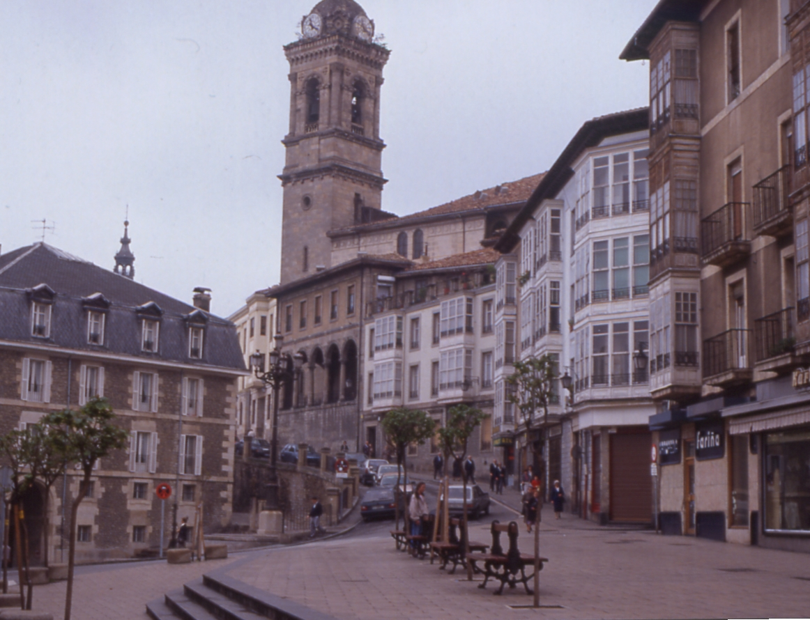 Place in front of the cathedral of Gasteiz (Vitoria) in the Basque autonomous Region of Spain